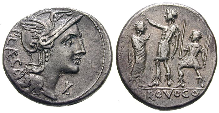 Publius Porcius Laeca. Denarius (AR; 18-19 mm; 3.96 g; 9 h) 110-109 BC. Obverse: Helmeted head of Roma right, LAECA behind, before X; Reverse: Three figures, the centre one is a man clad in the paludamentum, laying his right hand on the head of a citizen wearing a toga, and behind him stands a lictor; beneath these figures there is the legend PROVOCO.